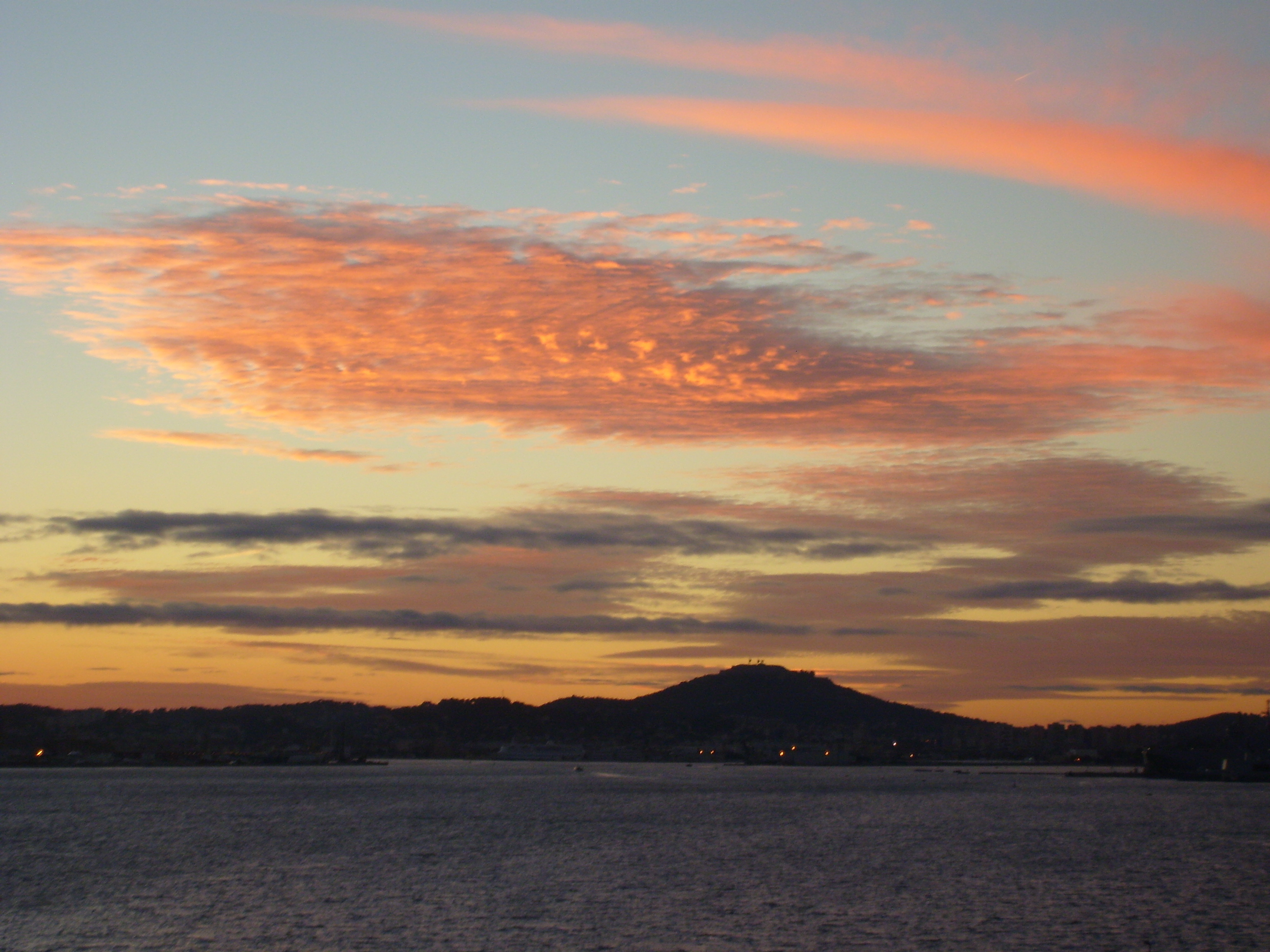 Toulon, sunset over the Rade